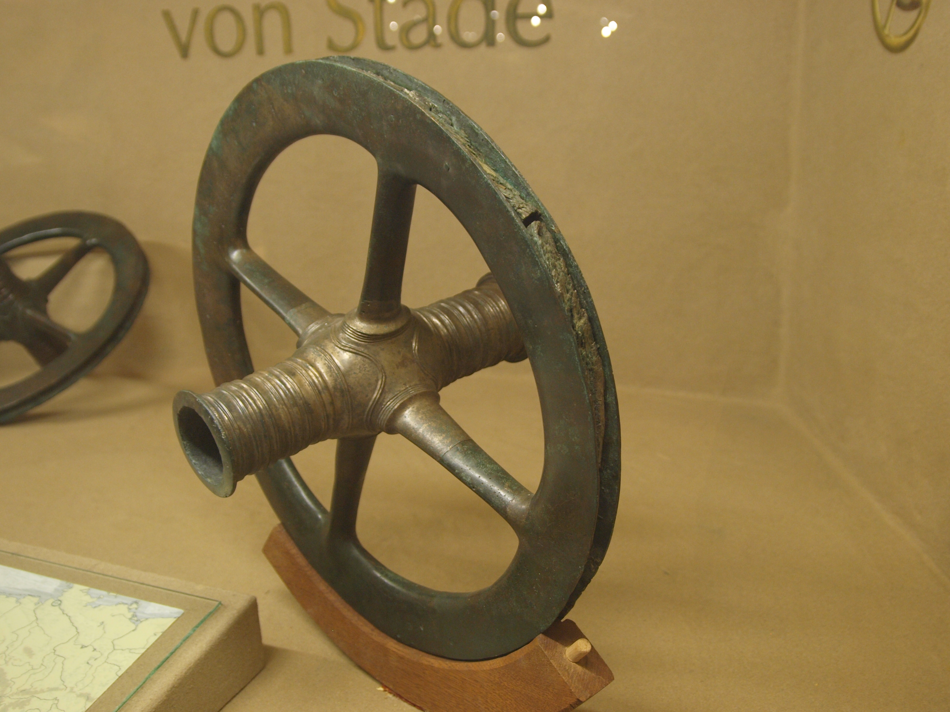 One of the bronce wheels of Stade, at Schwedenspeicher Museum, Stade, Germany, dating around 700 BCE.